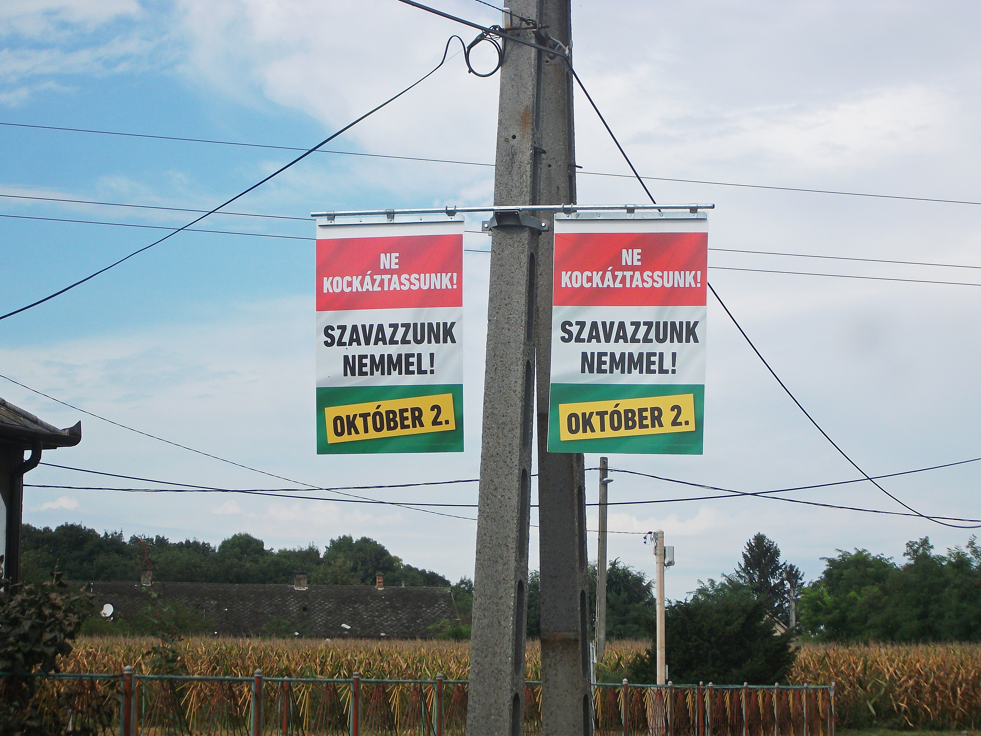 2016 Hungarian Referendum. Posters of the government in the Dózsa György street, Zichyújfalu, Hungary.